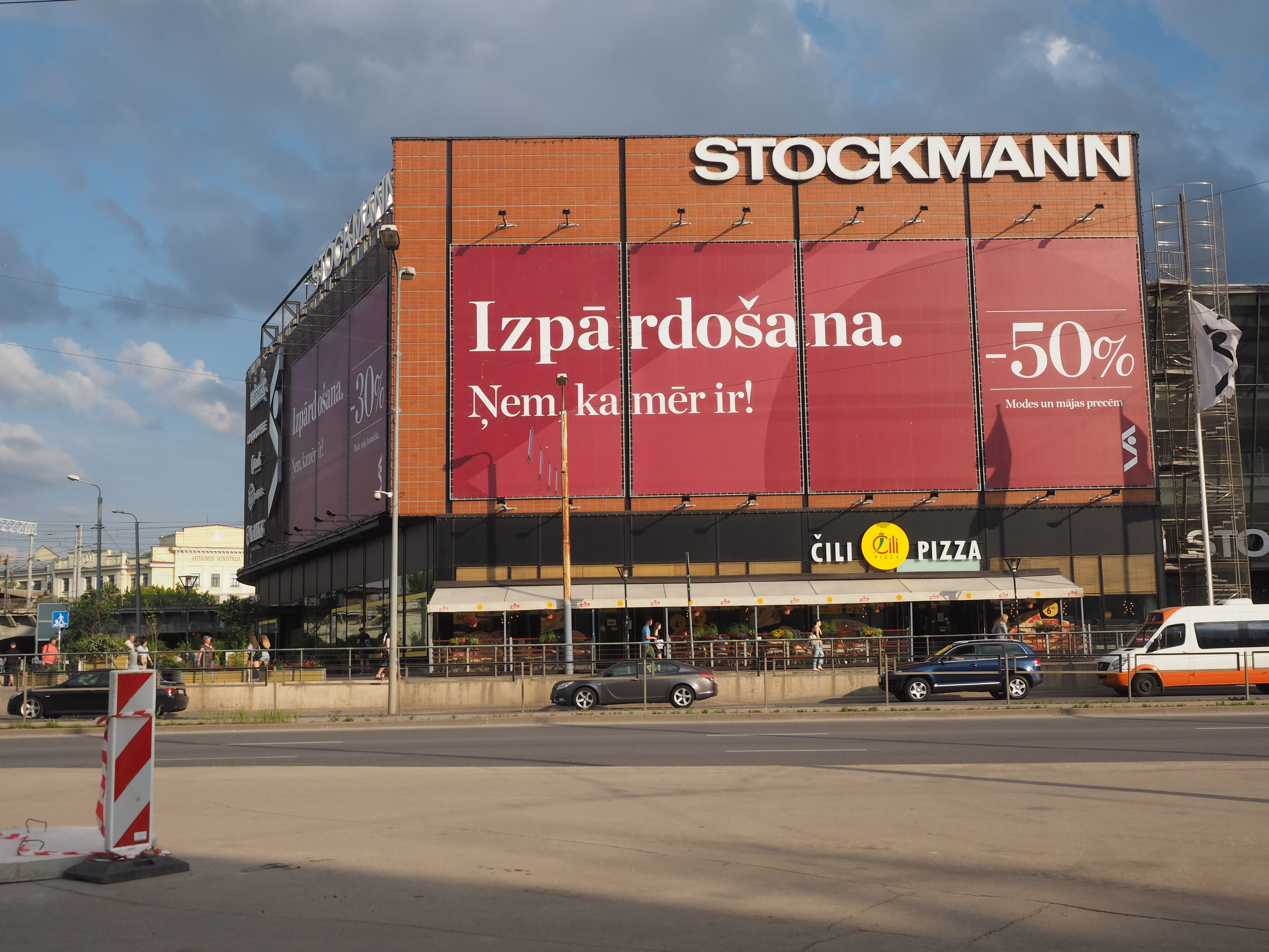 An exterior view of the Stockmann department store in central Riga, Latvia.